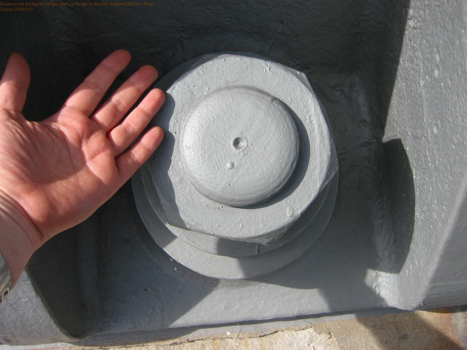 One of the many nuts holding the Sydney Harbour Bridge on its abutments. This one is at Milsons Point (the north end), and a man's hand is shown for scale.